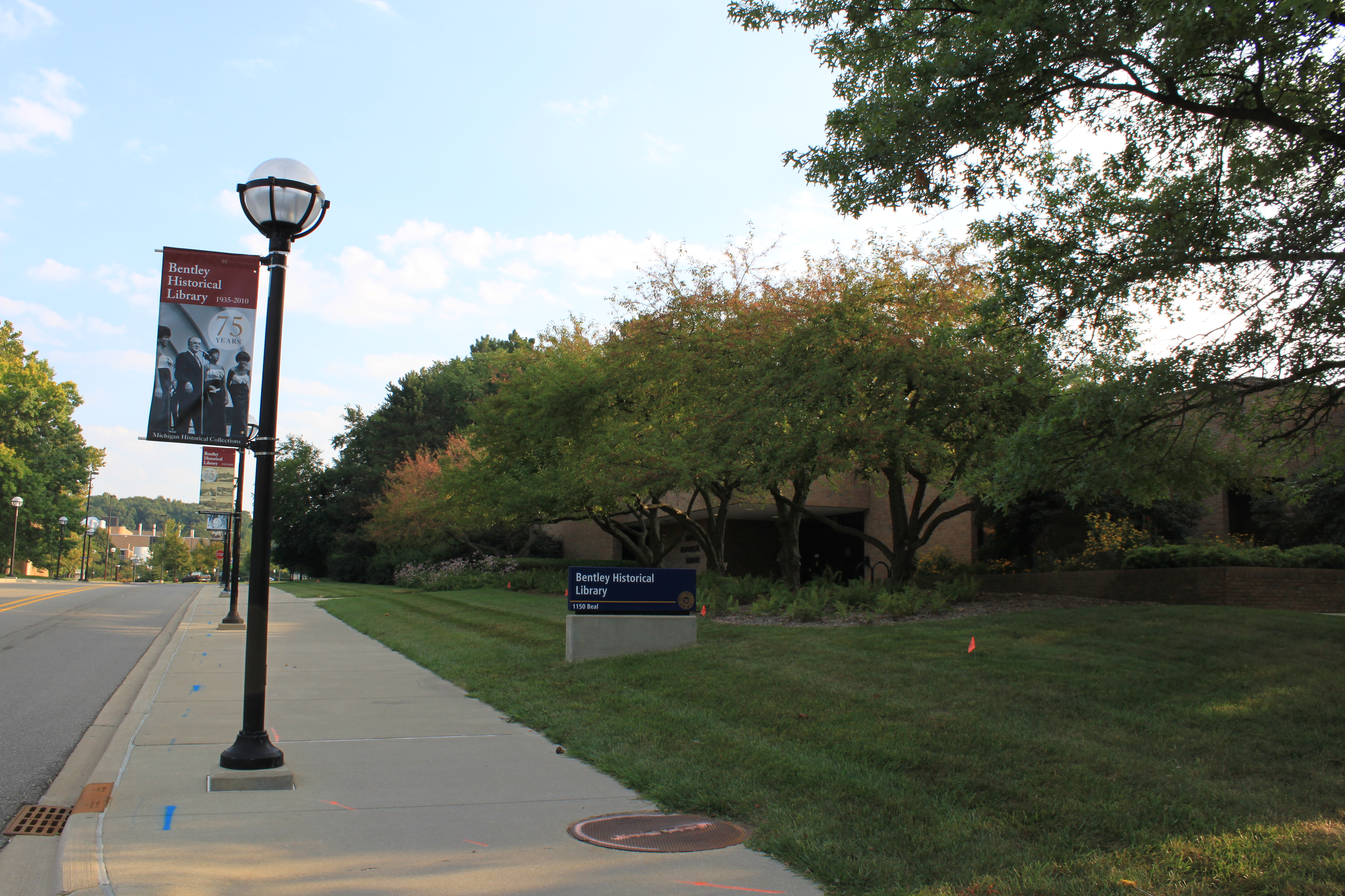 Bentley Historical Library, University of Michigan, 1150 Beal Avenue, Ann Arbor - Michigan